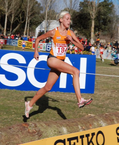 Susan Kuijken during European Championships Cross 2007